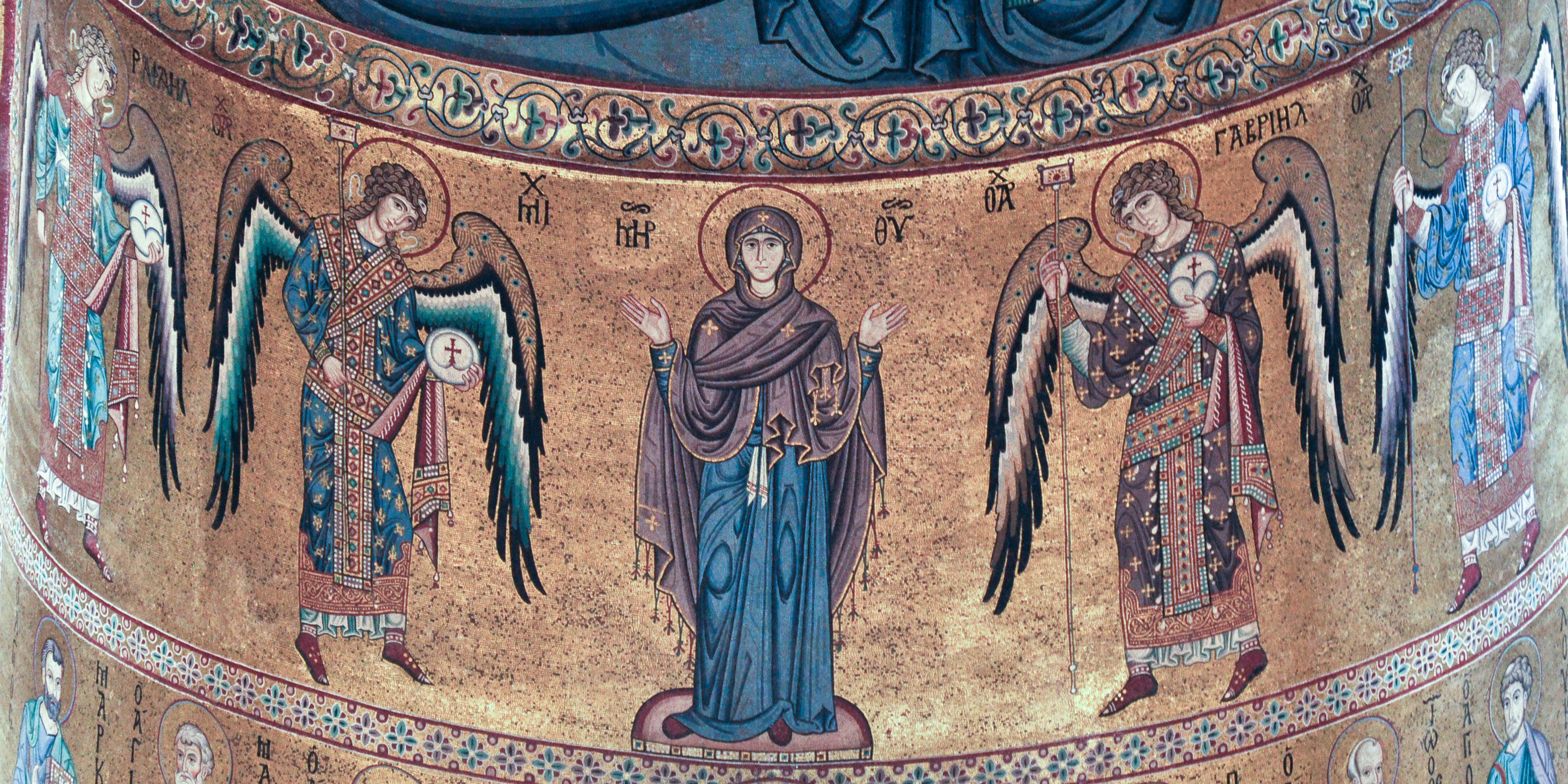 Mosaic in the Cathedral of the Transfiguration, describes Virgin Mary with four angels. They are labeled with their names (left to right): Saint Raphael the Archangel, Saint Michael the Archangel, Saint Gabriel the Archangel. The last one is identified with Uriel.